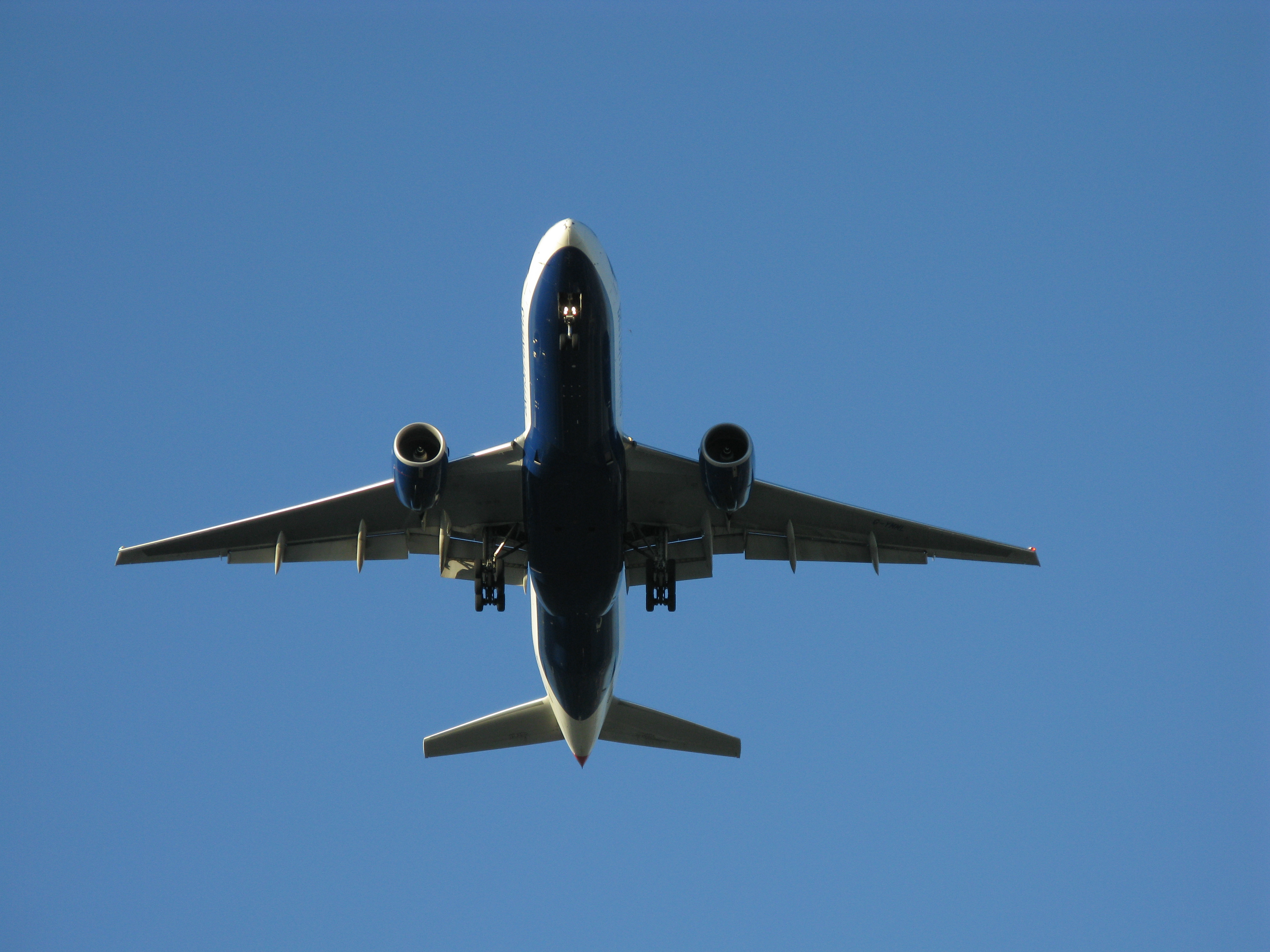 A British Airways Boeing B777-200ER (civil registration : G-YMML) on final for runway 24R at Montréal-Trudeau International Airport (YUL/CYUL).